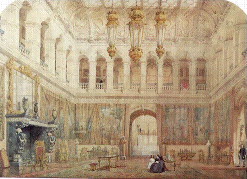 Watercolour painted circa 1863